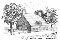 Wilhelmus (William) Beekman built his home on his vast estate at Rhinebeck, NY, the citying named in his honor.